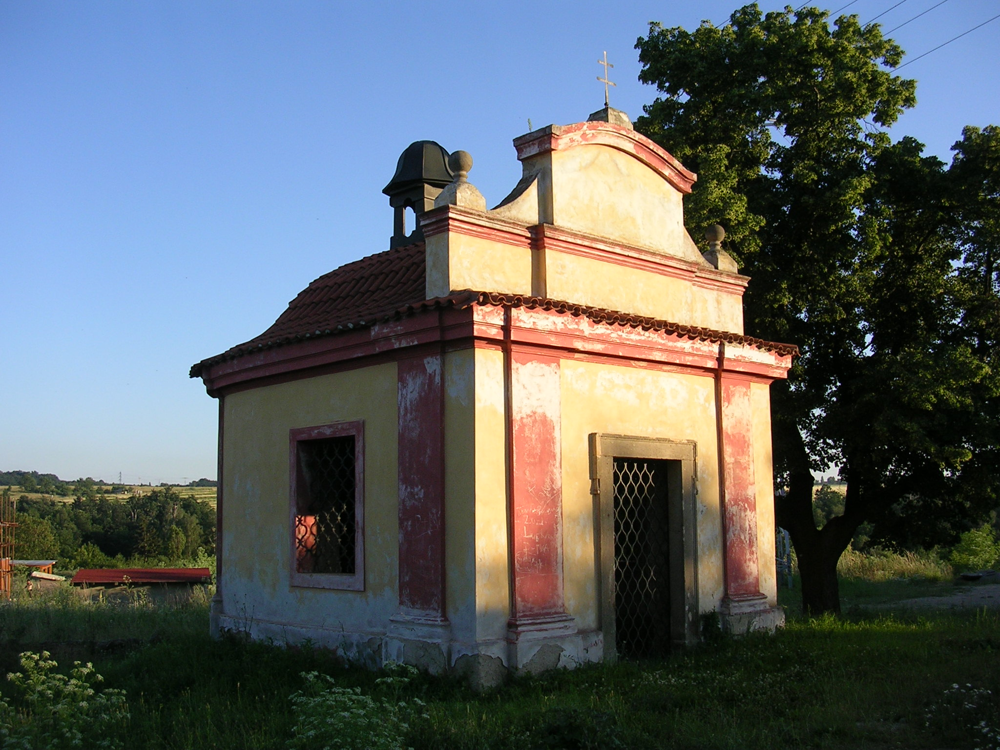 Chapel of St John Nepomucene in Únětice, Prague-West District, the Czech Republic. - OpenStreetMap(Info)